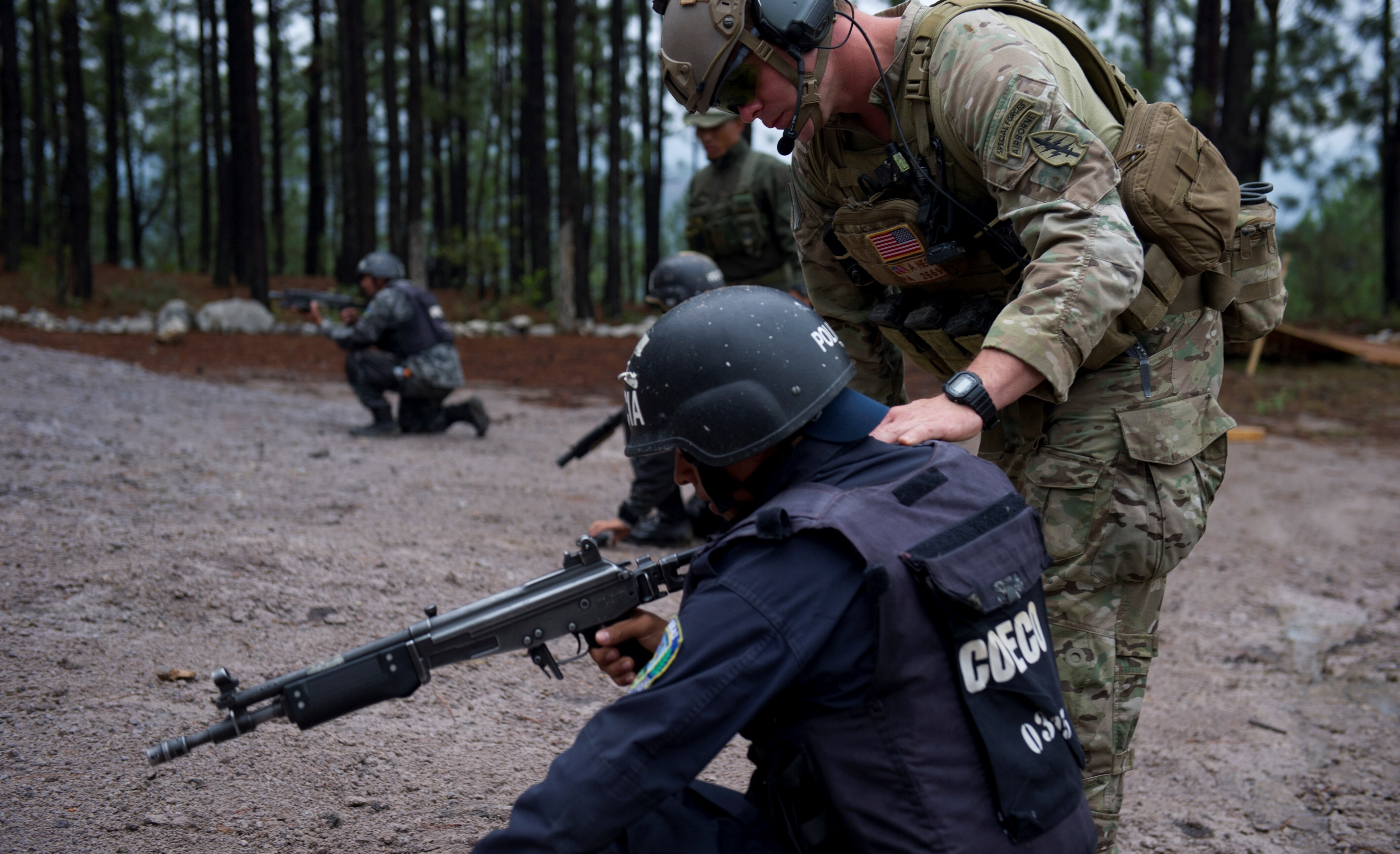 A Green Beret looks into the rifle chamber of a TIGRES Commando during bounding overwatch exercises with live ammunition during training with Green Berets from the 7th Special Forces Group (Airborne) and Junglas from the Colombian National Police in Tegucigalpa, Honduras, May 8, 2014. The TIGRES will be the Honduran Government’s force of choice to conduct operations to capture high value narcotraffiking targets and criminal leadership.